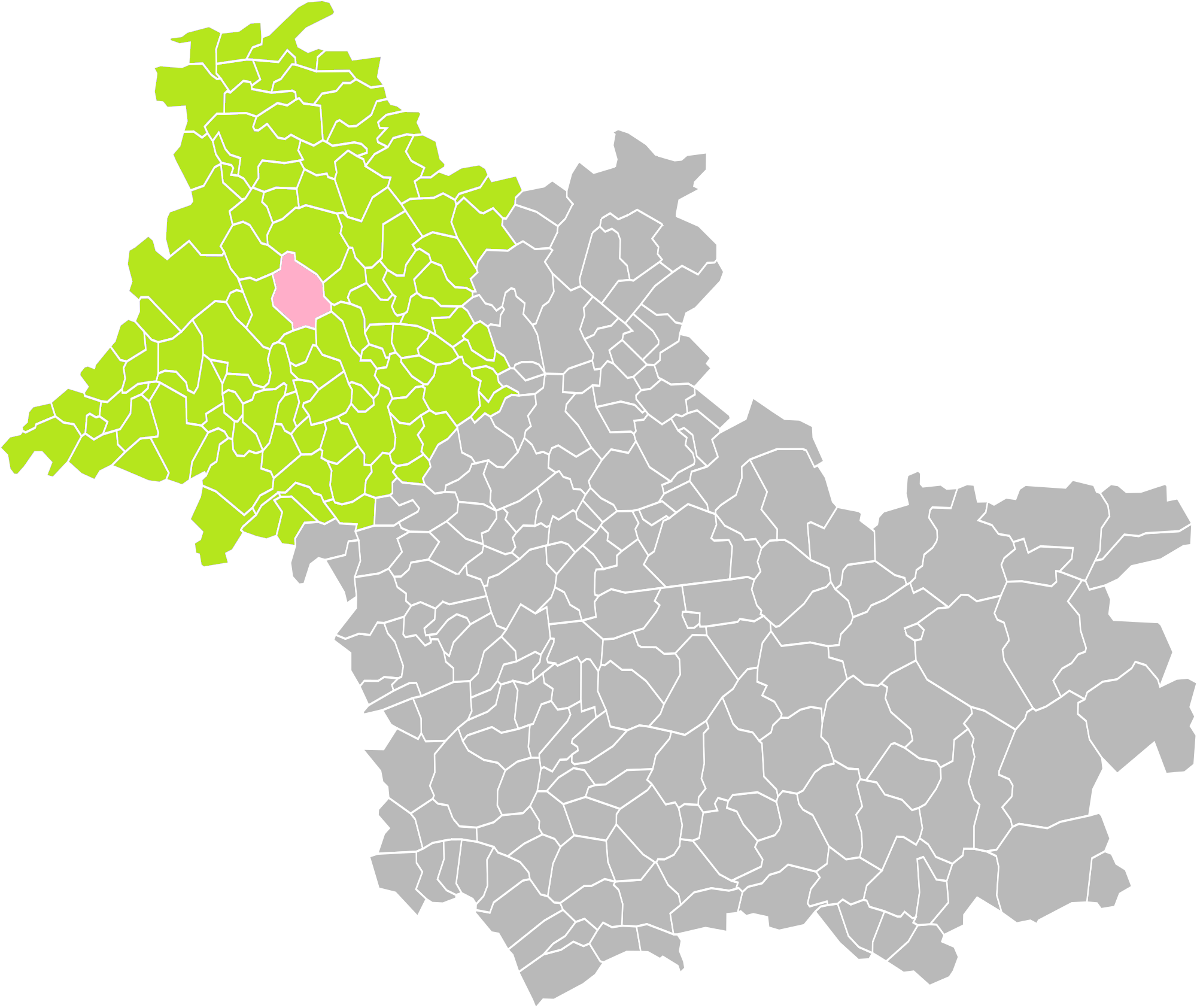 Location of the commune of Azé in the arrondissement of Vendôme (Loir-et-Cher)